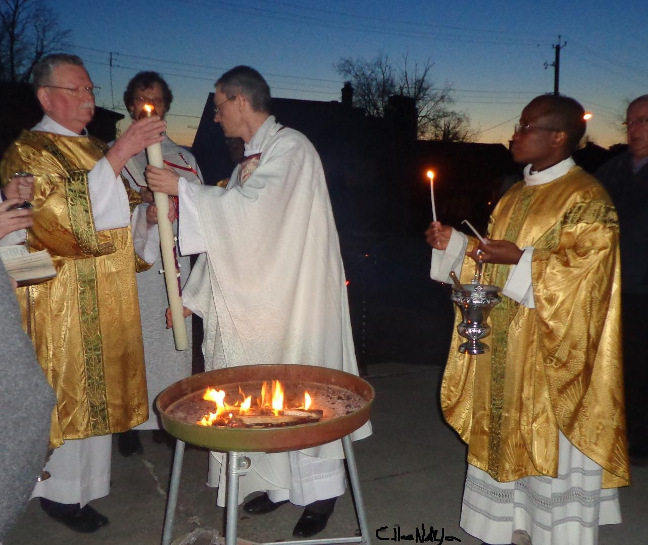 Blessing of the Easter Candle, 2015